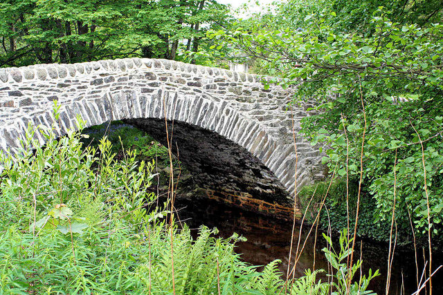 Barnacabber Bridge Spanning Glen Finart Burn Glen Finart,near to Ardentinny, Argyll